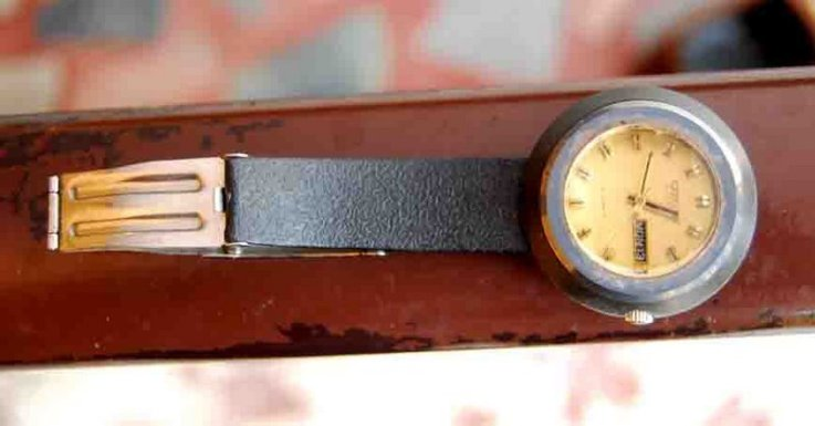 A still of the citizen wach created by the user & from the user's collection.